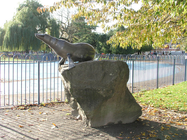 Billy the Seal, Victoria Park, Cardiff The paddling pool (drained for the winter) is behind this monument to the famous Billy the Seal Billy was accidentally caught in fishing nets in 1912 and was "re-homed" in Victoria park. When the area flooded in 1927 he temporarily escaped and tried to board a tram. When he died in 1939 "he" was found to be a "she".